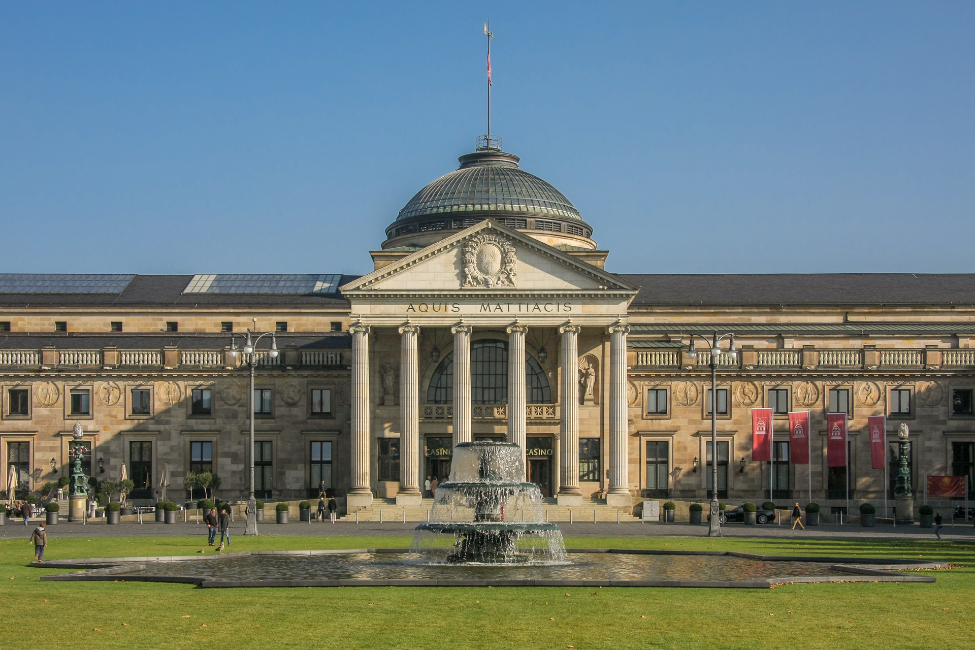 Kurhaus WiesbadenThis is a photograph of an architectural monument.